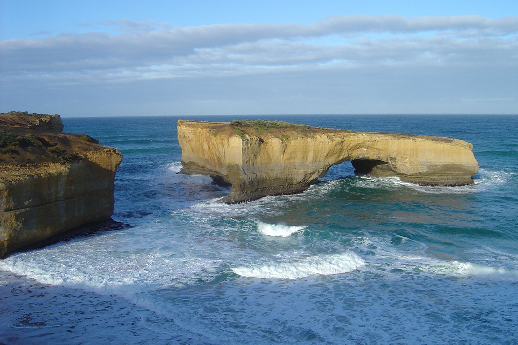 London Bridge/London Arch Victoria